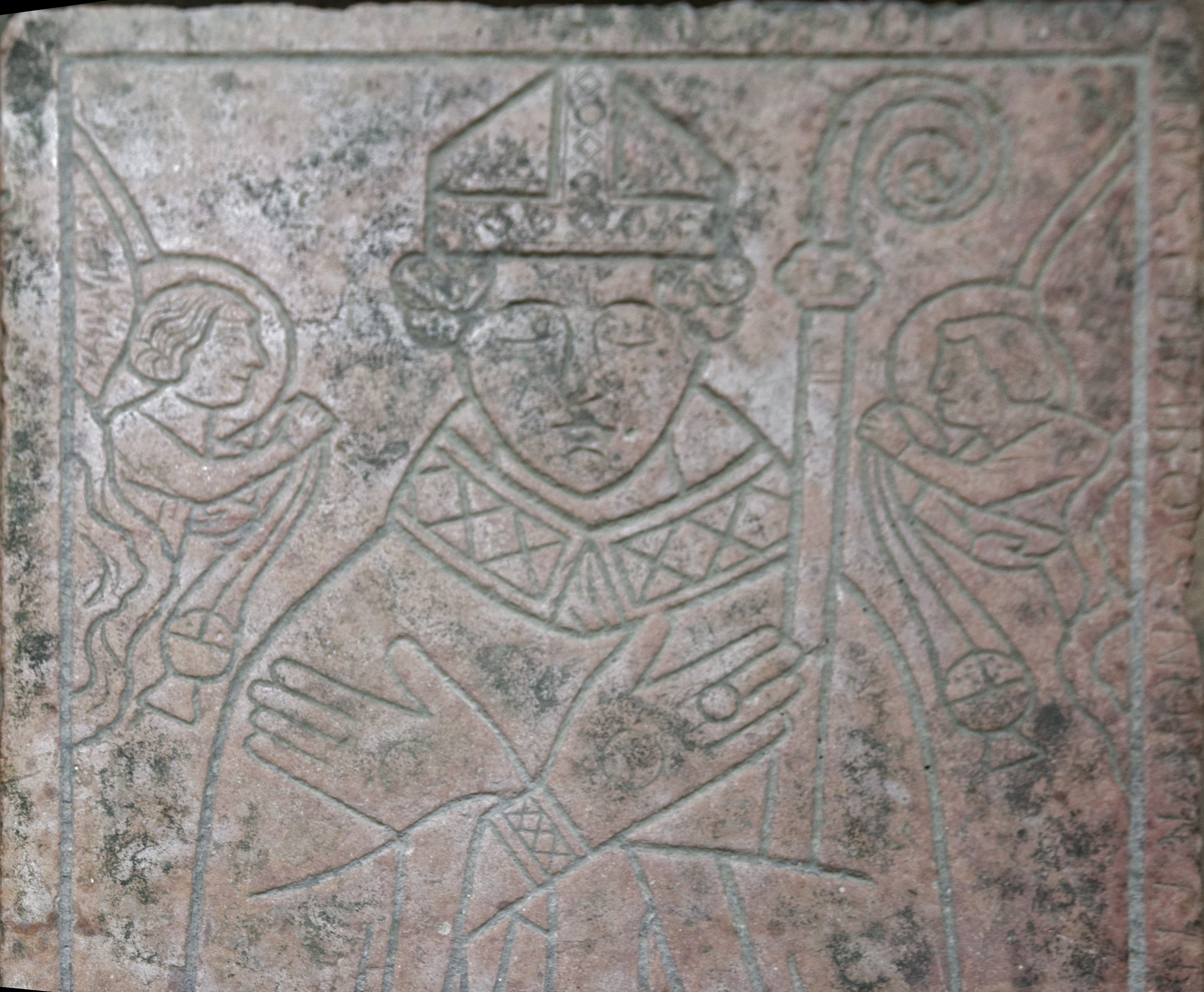 Gravestone of Ebrard de Norwich, on the apse of the Abbey of Fontenay.